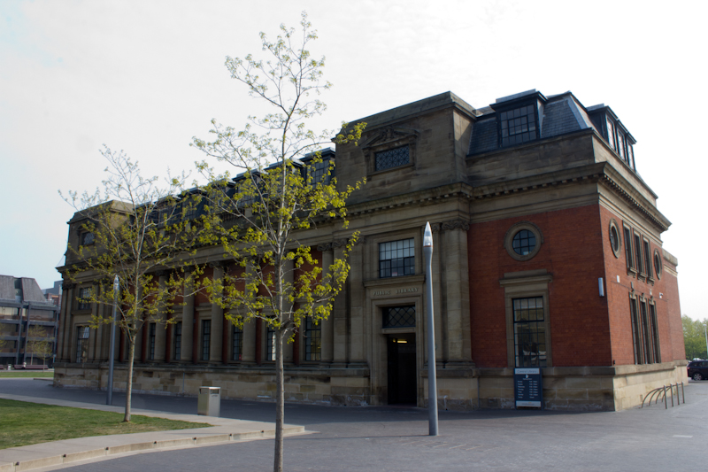 Middlesbrough Central Library, taken in 2011.